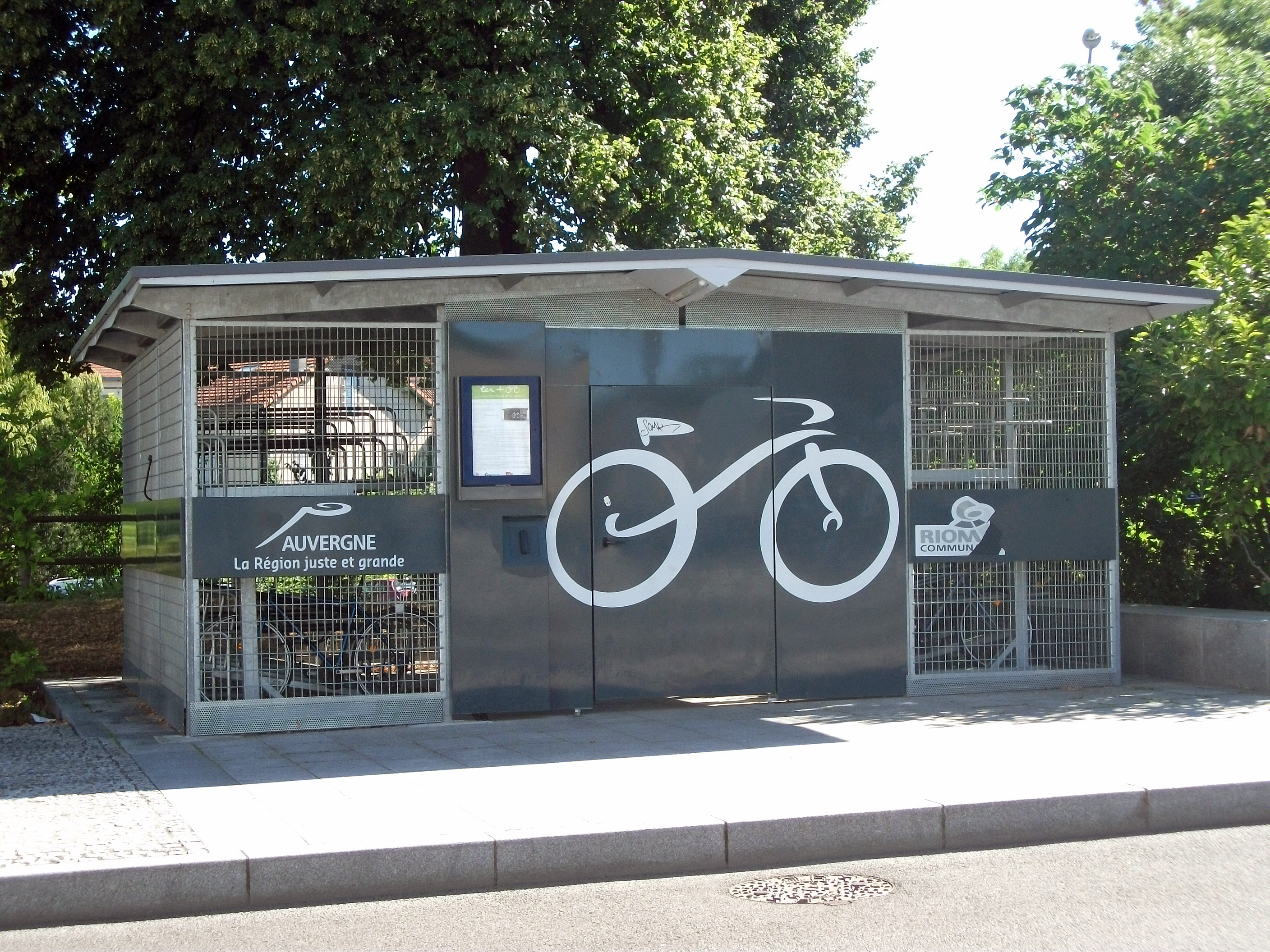 Secured bicycle parking (shelter) of Riom railway station [11518]